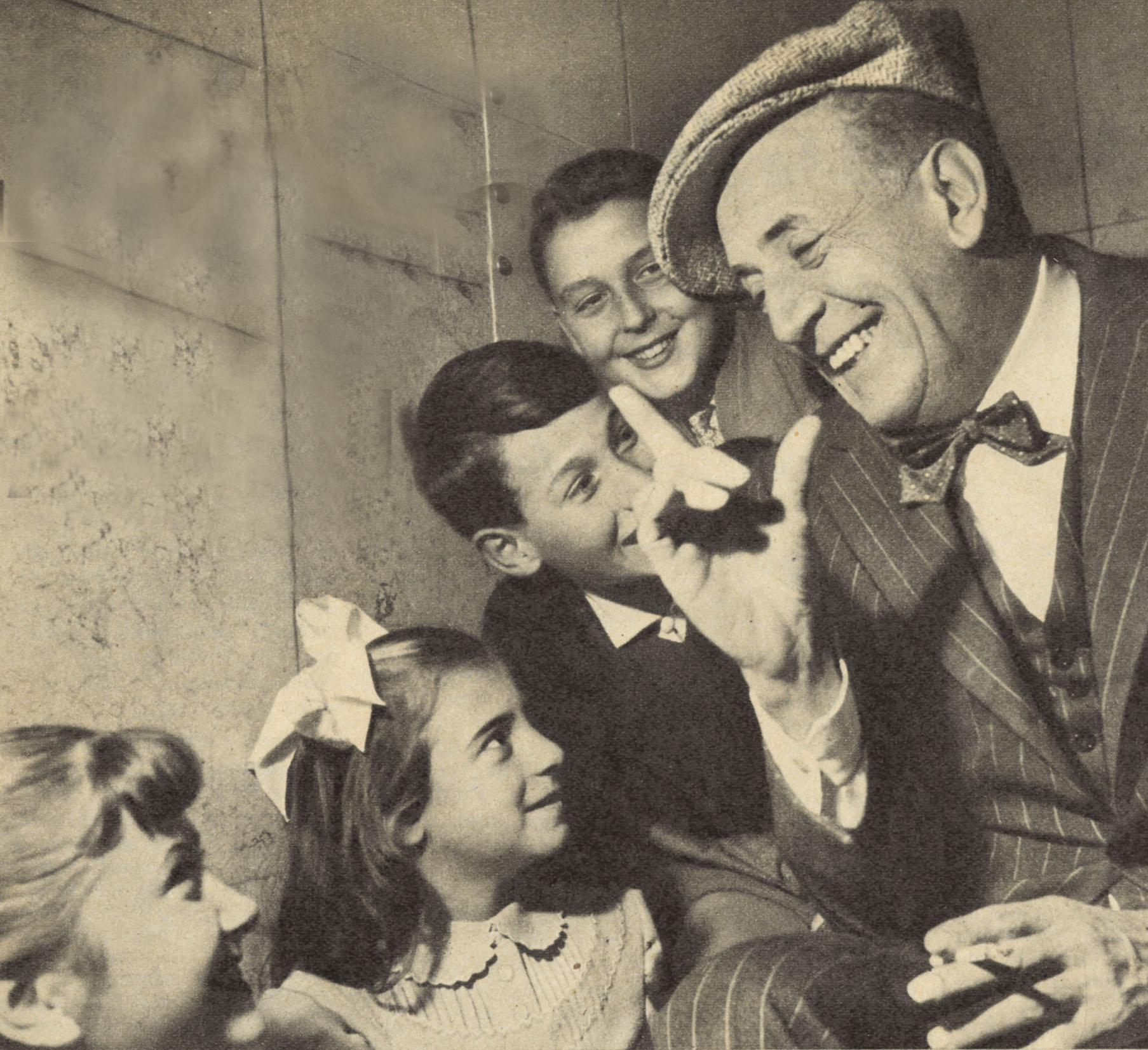 photo from the magazine Radiocorriere (1958)